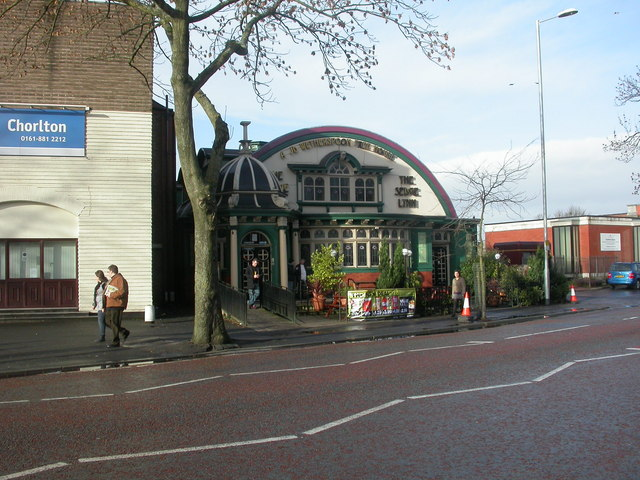 Chorlton-cum-Hardy, The Sedge Lynn English Heritage-listed former billiard hall, excellently converted into Wetherspoons pub. Built 1906-10 by the Temperance Hall Billiard Company, whose members would no doubt be turning in their graves to see its present use. Barrel roof with metal trusses, stained glass windows. Cask beers on offer at my visit: Exmoor Beast, Greene King Abbot & IPA, Marston's Pedigree, Theakston's Old Peculiar, Wells Bombardier. For full description of its architectural features